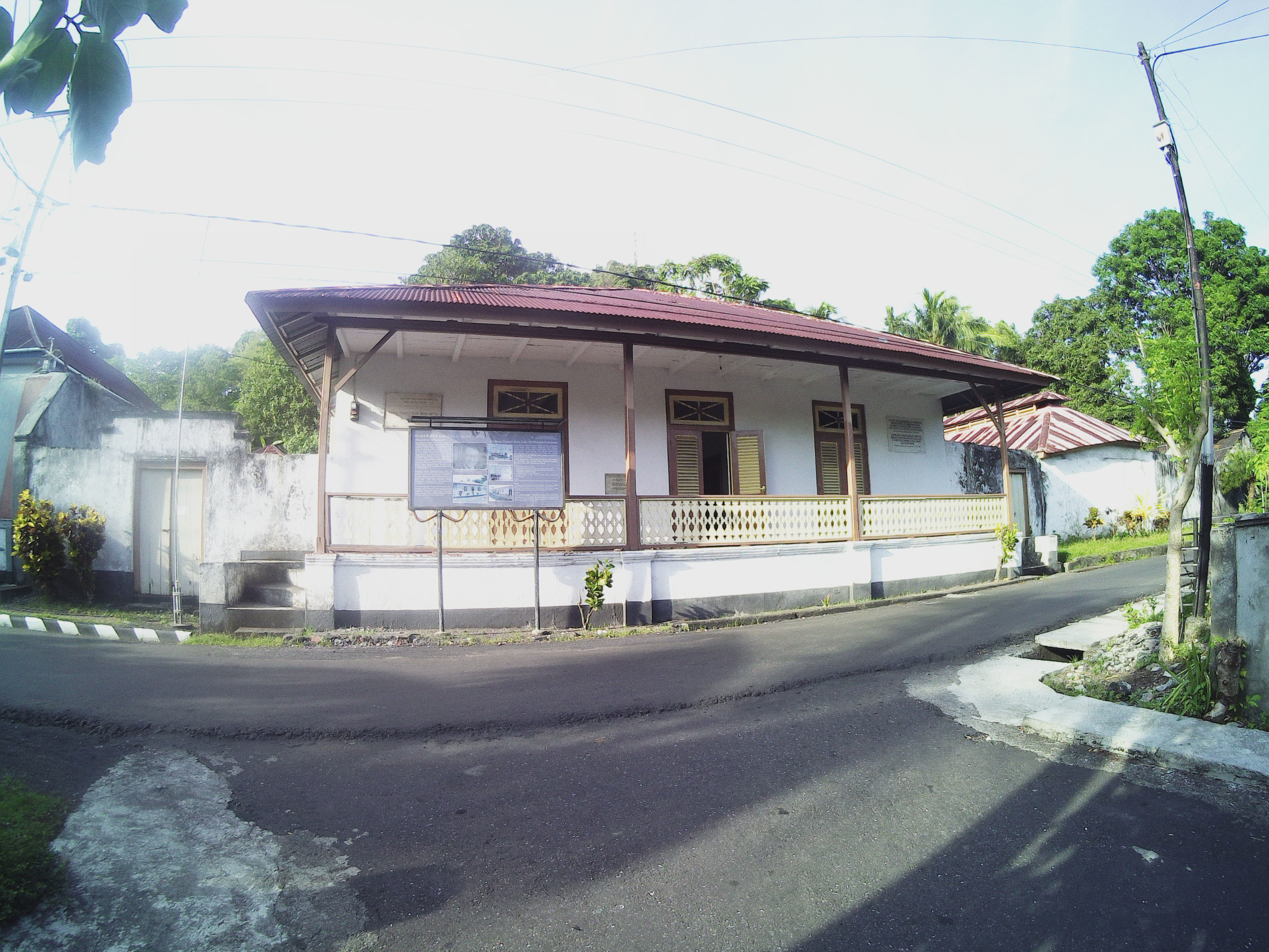 Muhammad Hatta home in exile on Bandanaira Island